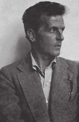 The Fellowship Portrait, 1930.